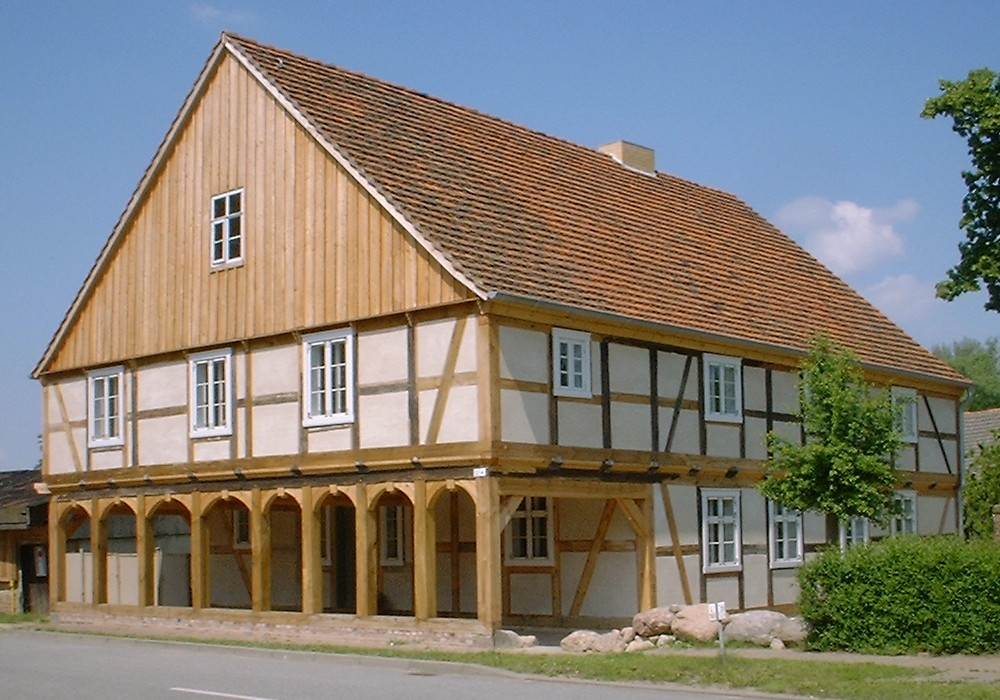 Alcove house in Temnitztal-Garz in Brandenburg, Germany